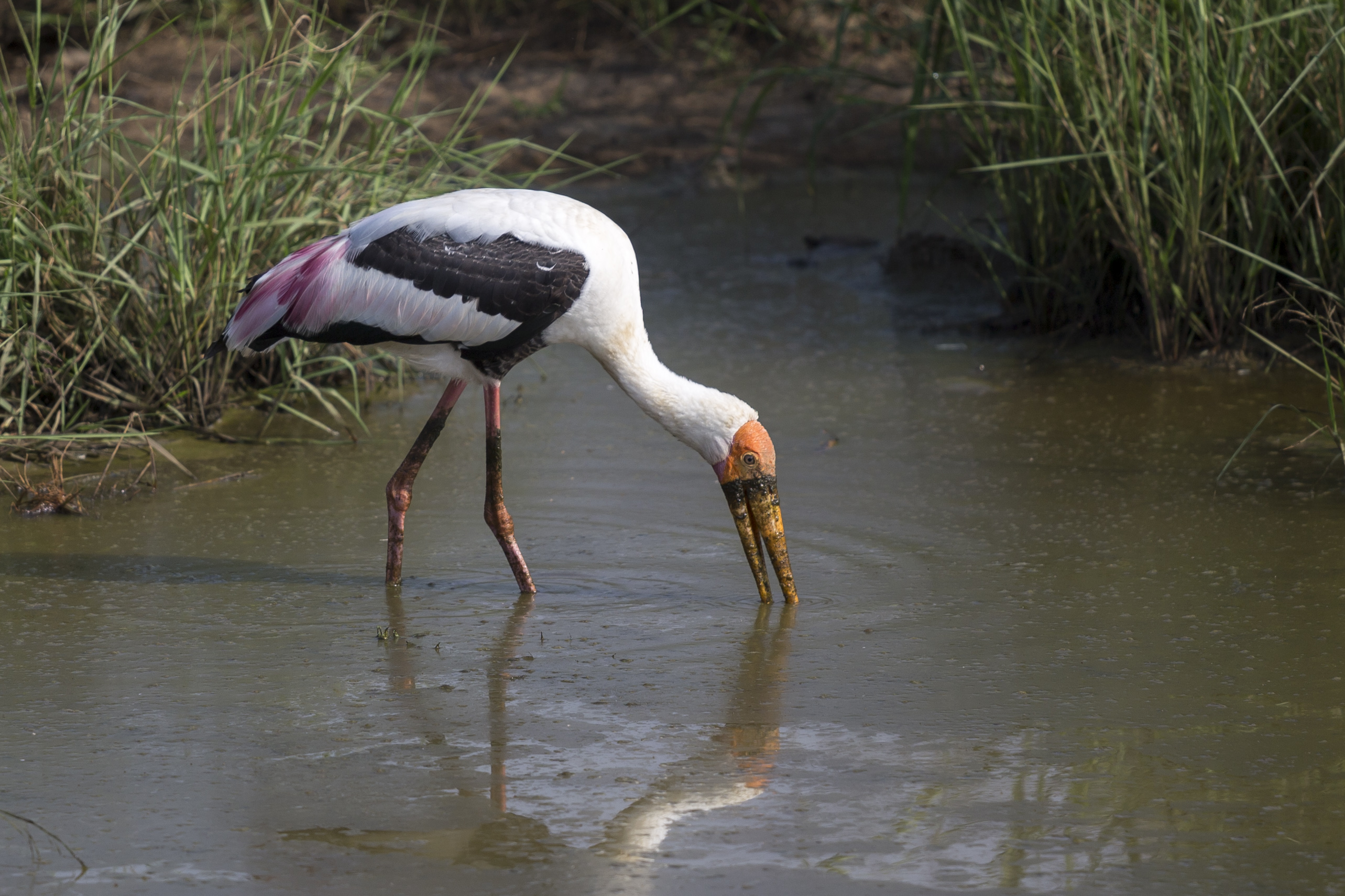 A Painted stork, feeding on small fish in Udawalawe National Park, Sri Lanka.